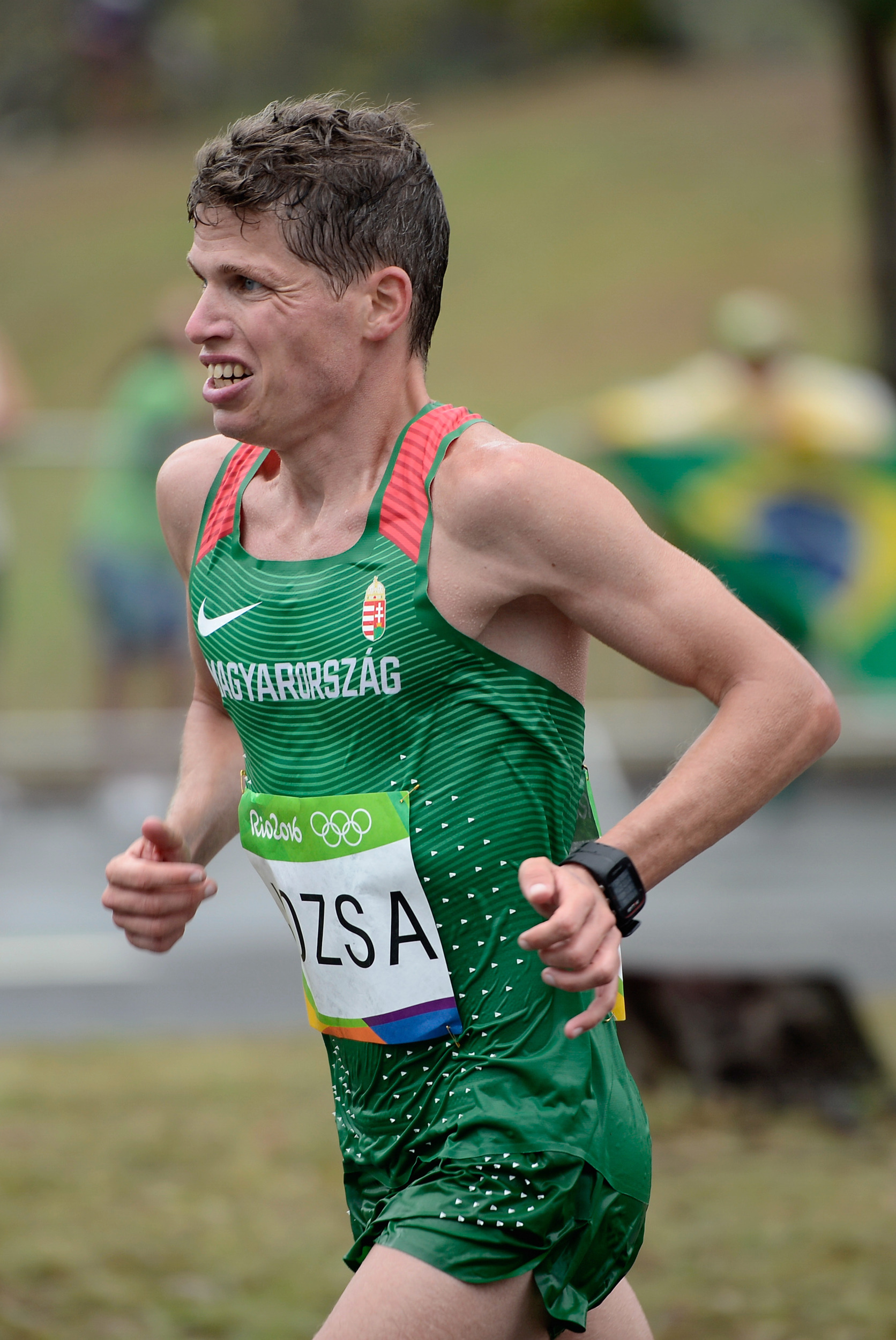 Rio de Janeiro - Sob chuva forte atletas da maratona masculina passam pelo aterro do Flamengo (Tânia Rêgo/Agência Brasil)